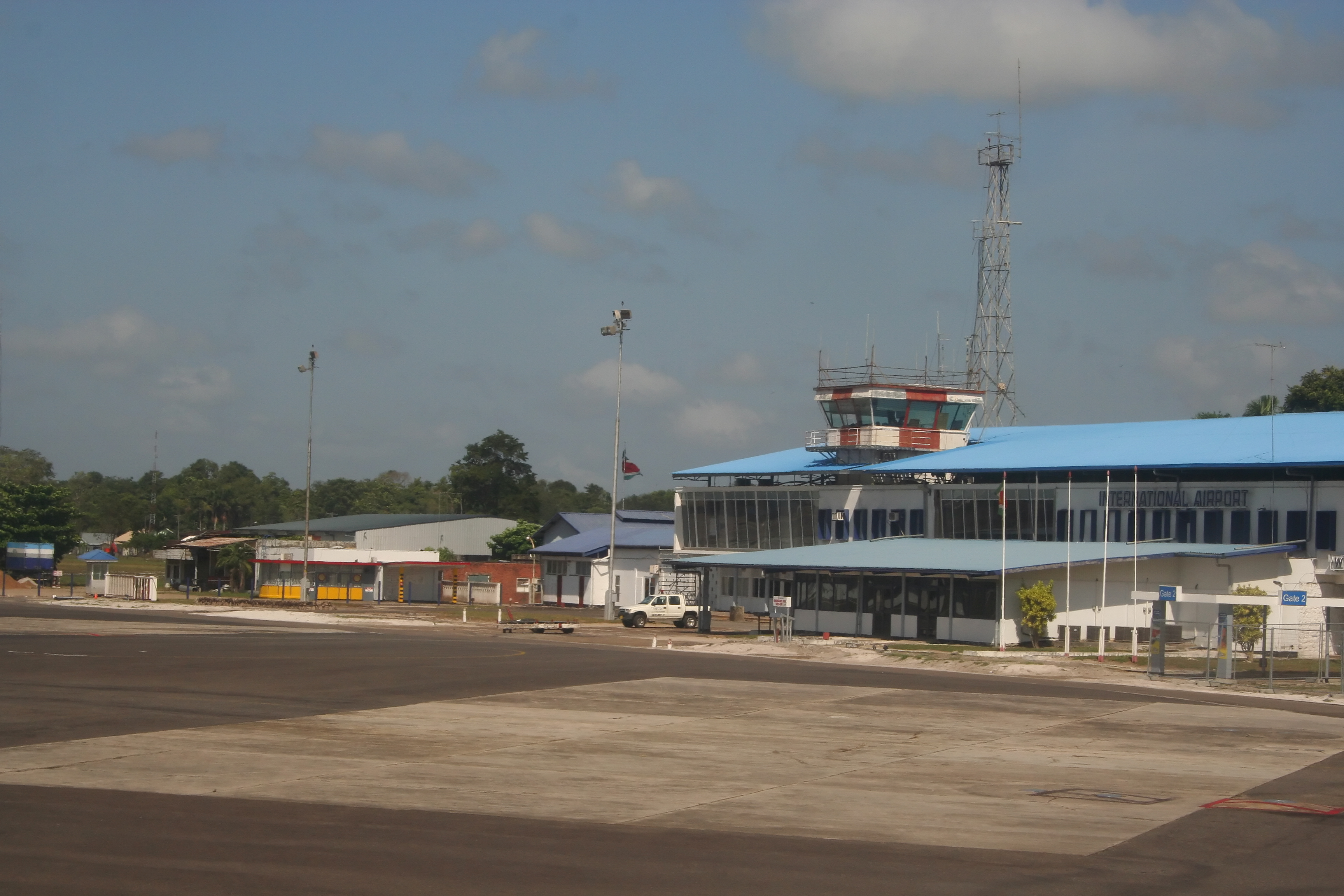 Johan Adolf Pengel Airport